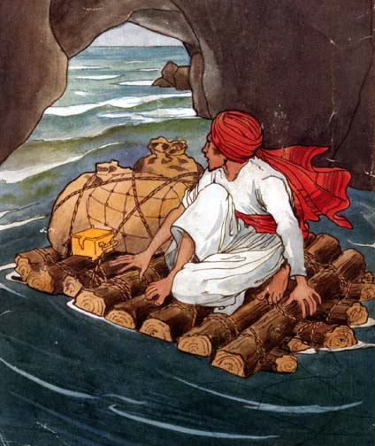 The stories for Arabian Nights Entertainments were published by "Longmans, Green, and Co., London, in 1898, by Andrew Lang (1844-1912). The Color Illustrations are by Rene Bull (1870-1946) the lager Black & white images are by Henry Justice Ford (1872-1941)